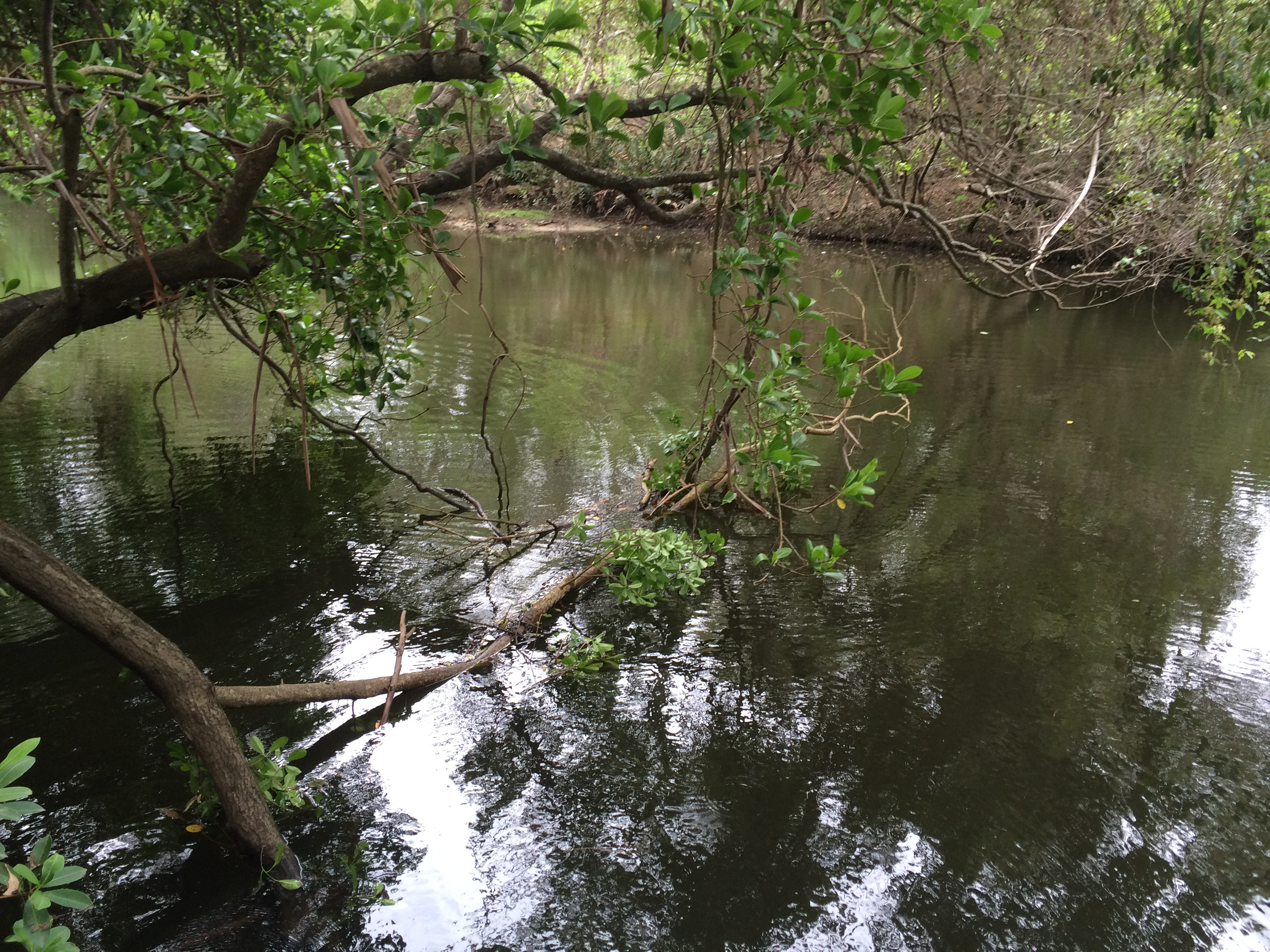 Tingalpa Creek at Capalaba Regional Park, with the suburb of Chandler visible on the far bank